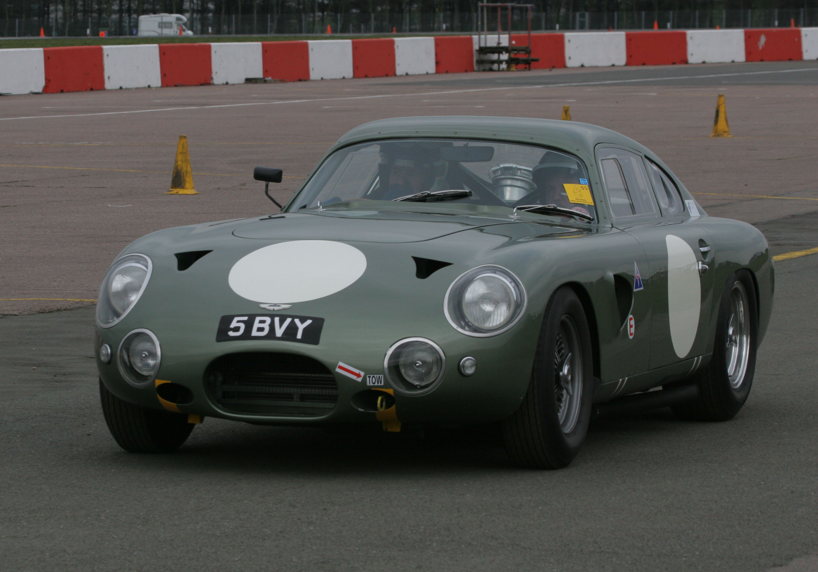 An interesting one... I found on the web: ...there are two known replicas. The car owned by Wolfgang Friedrichs is the Ken Lawrence car mentioned above and has been with us for many years. For my own purposes I designate this DB4GT/214/R1. The second car is the much more recently built car for Martin Brewer, but build was apparently started (according to the AMOC) alongside the above car. It was built up using DB4/559/L as the basis. Completed in 2005, it was given the registration no DSL 449, but as I understand it has been re-registered since as 5 BVY so that it closely resembles that accorded to the surviving original car. This was the car that appeared at the 2007 Le Mans Legends race on 16 June. I will call this DB4GT/214/R2.